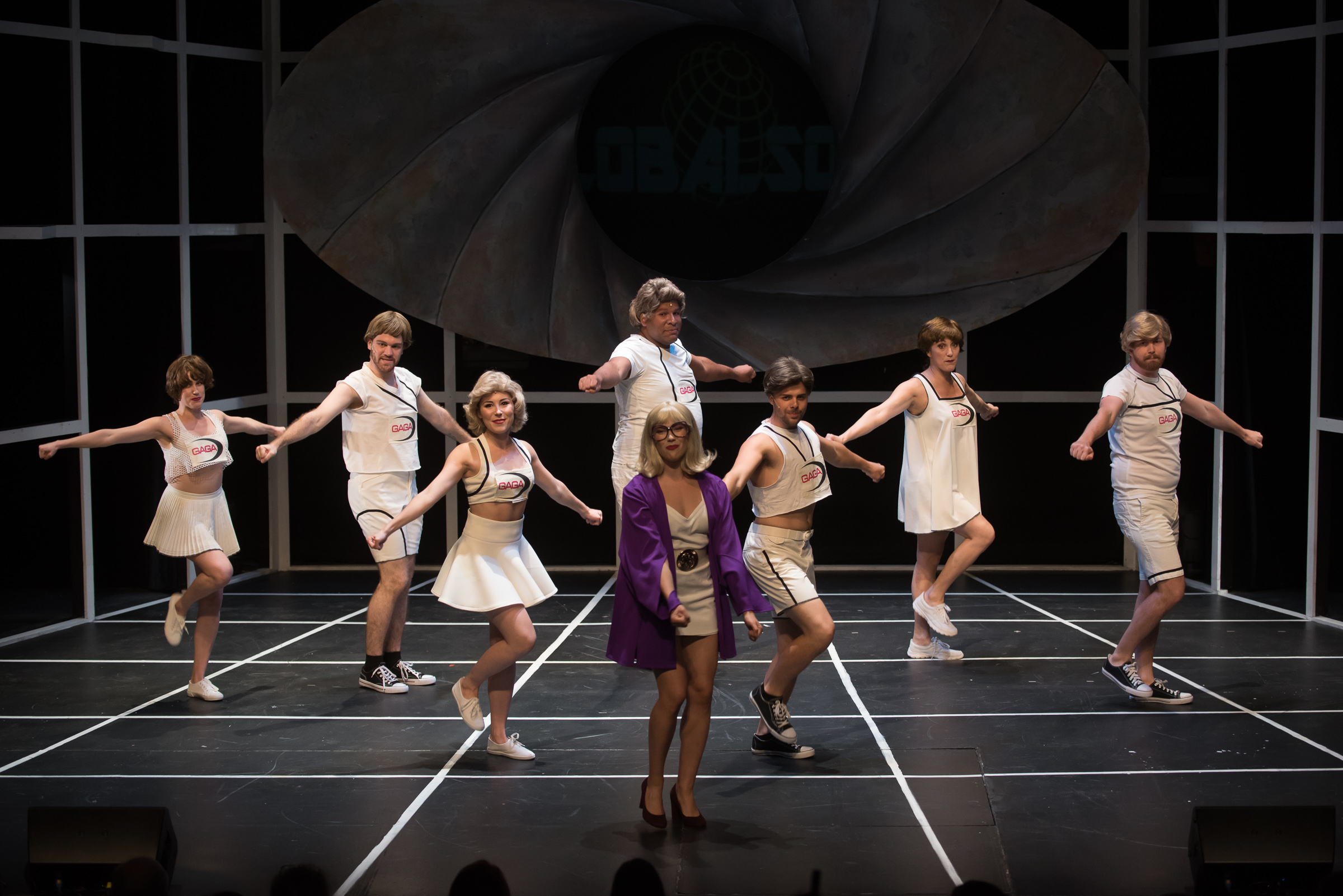 Radio Gaga, Magnus Theatre's North American Regional Theatre Premiere production of We Will Rock You. Photo Matthew Goertz.